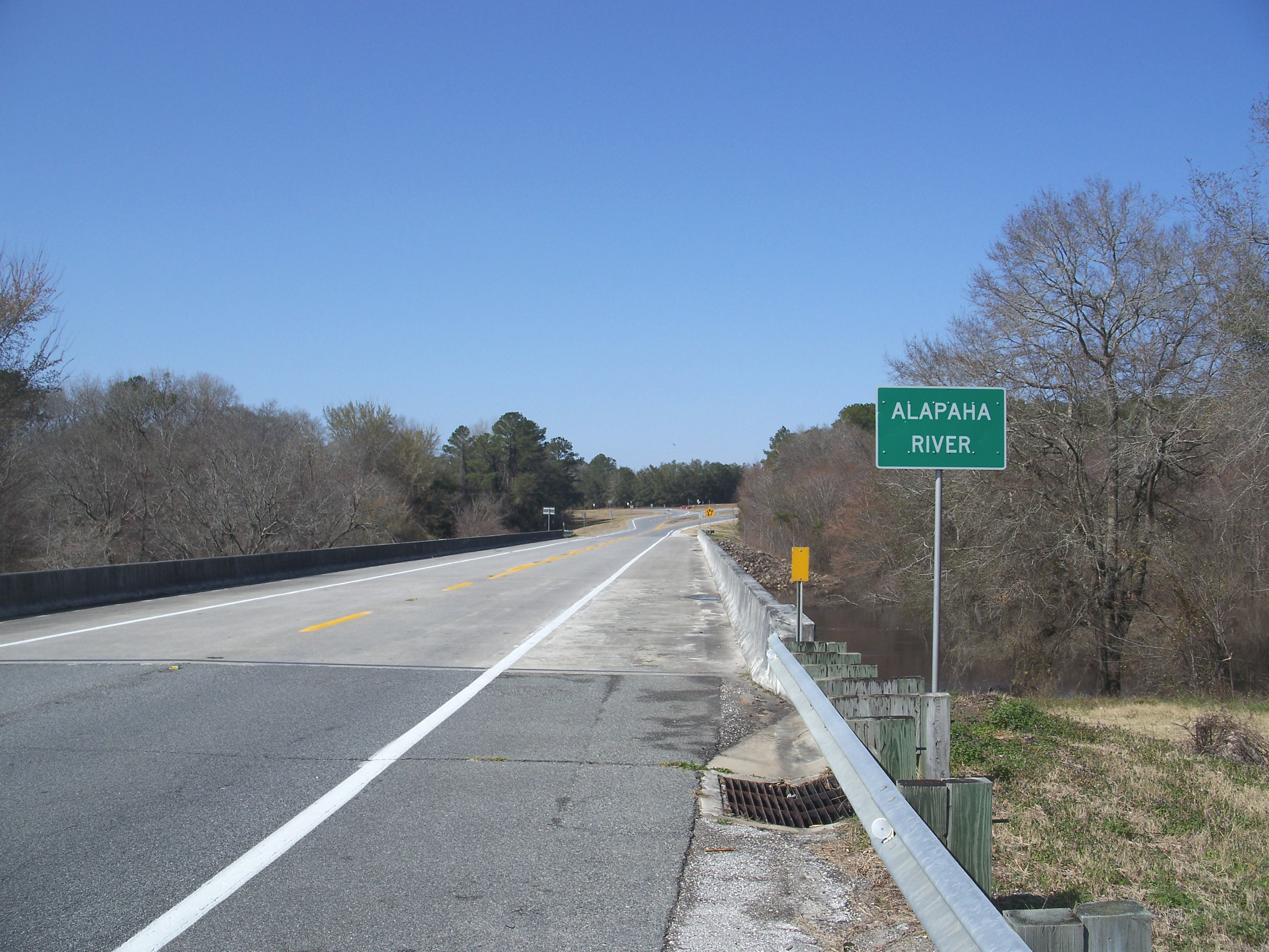 Hamilton County, Florida: Alapaha River, between Jasper and Jennings: US 41 bridge over the river, looking west.